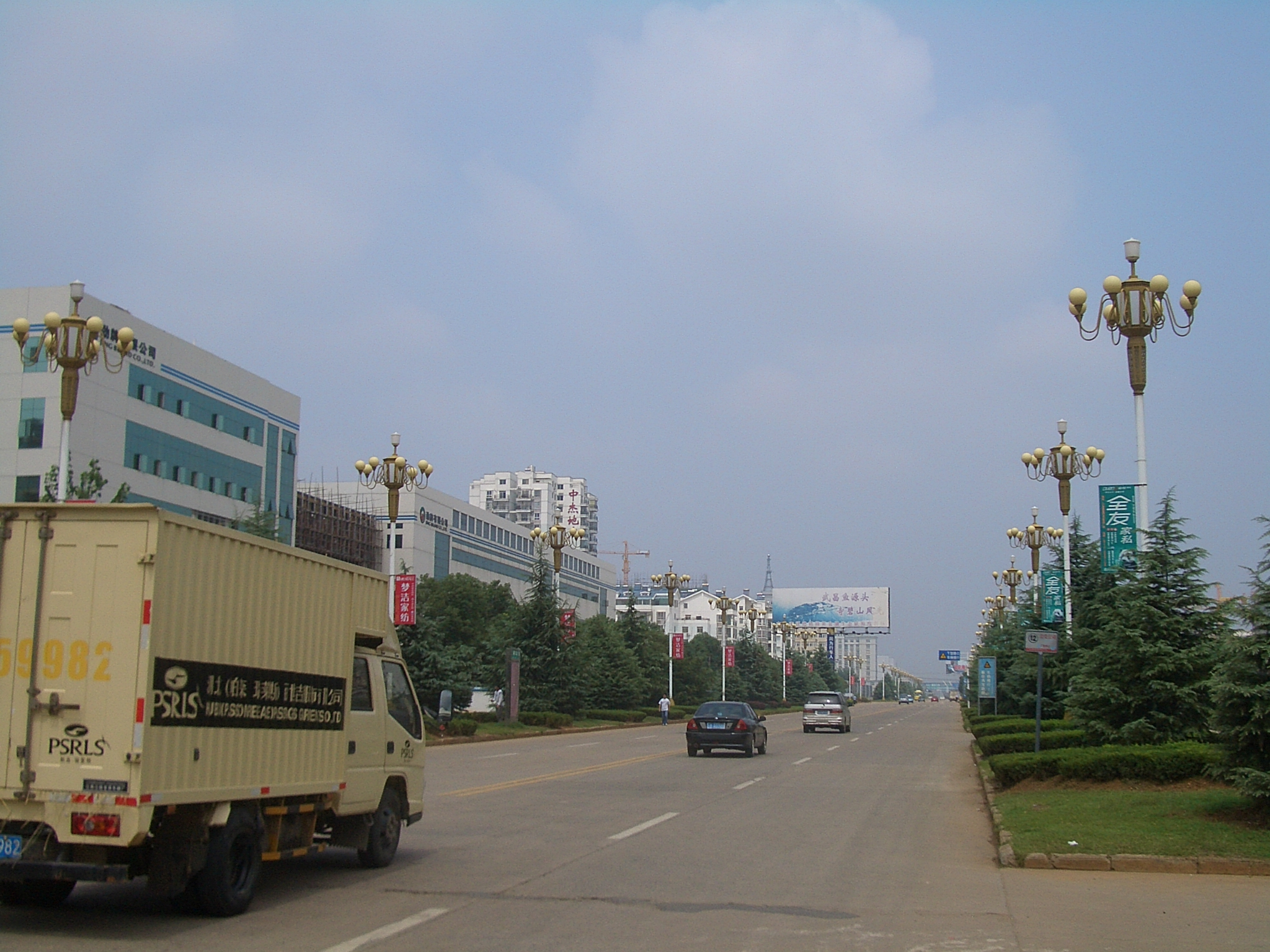 The new main street of Daye Town (Huangshi CIty, Hubei), which runs north from the old city center. It caries the National Hwy G106/G316.